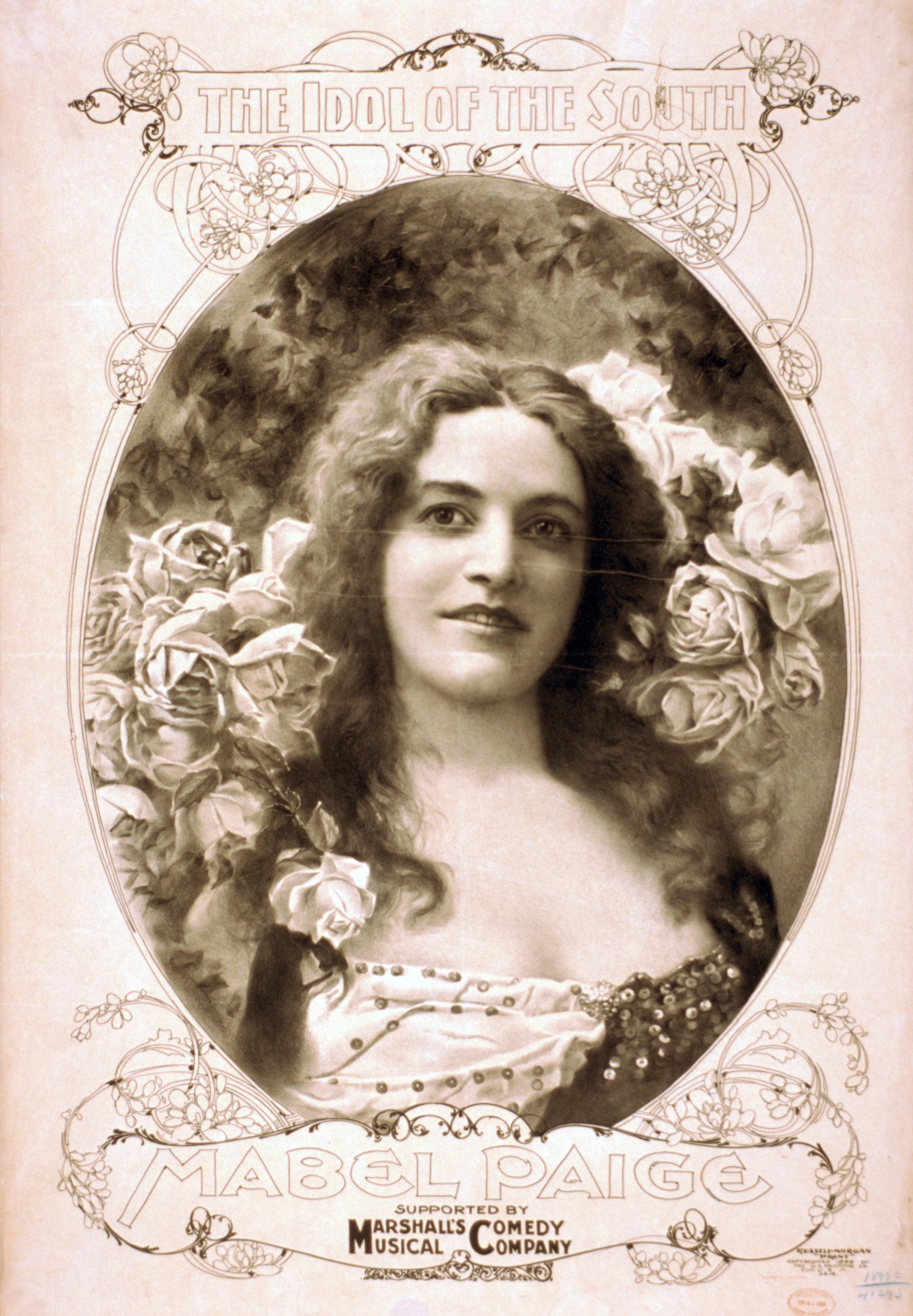 American actress Mabel Paige (1880–1954). "The Idol of the South, Mabel Paige. Supported by Marshall's Musical Comedy Company."